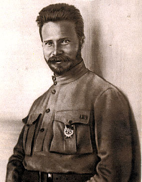 Michail Frunze (1885-1925) soviet military commander.